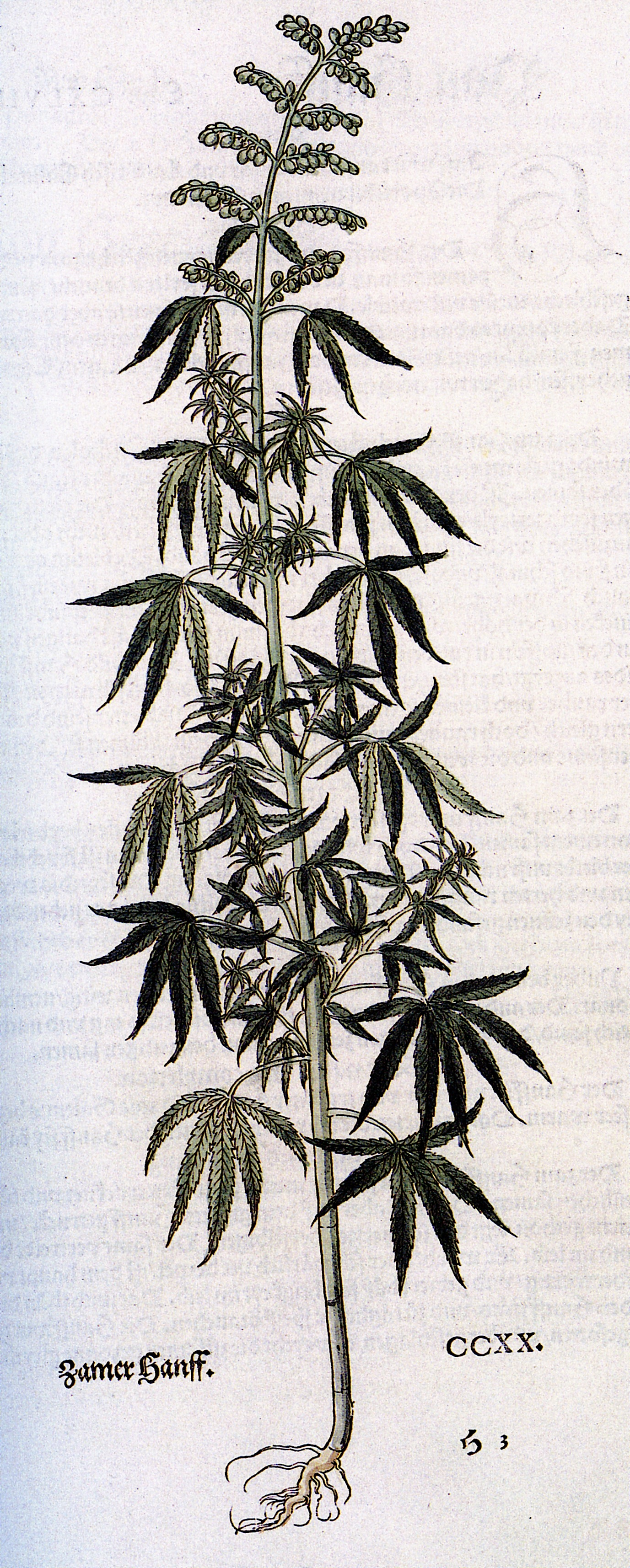 Cannabis sativa from Leonhart Fuchs's Das Kräuterbuch.